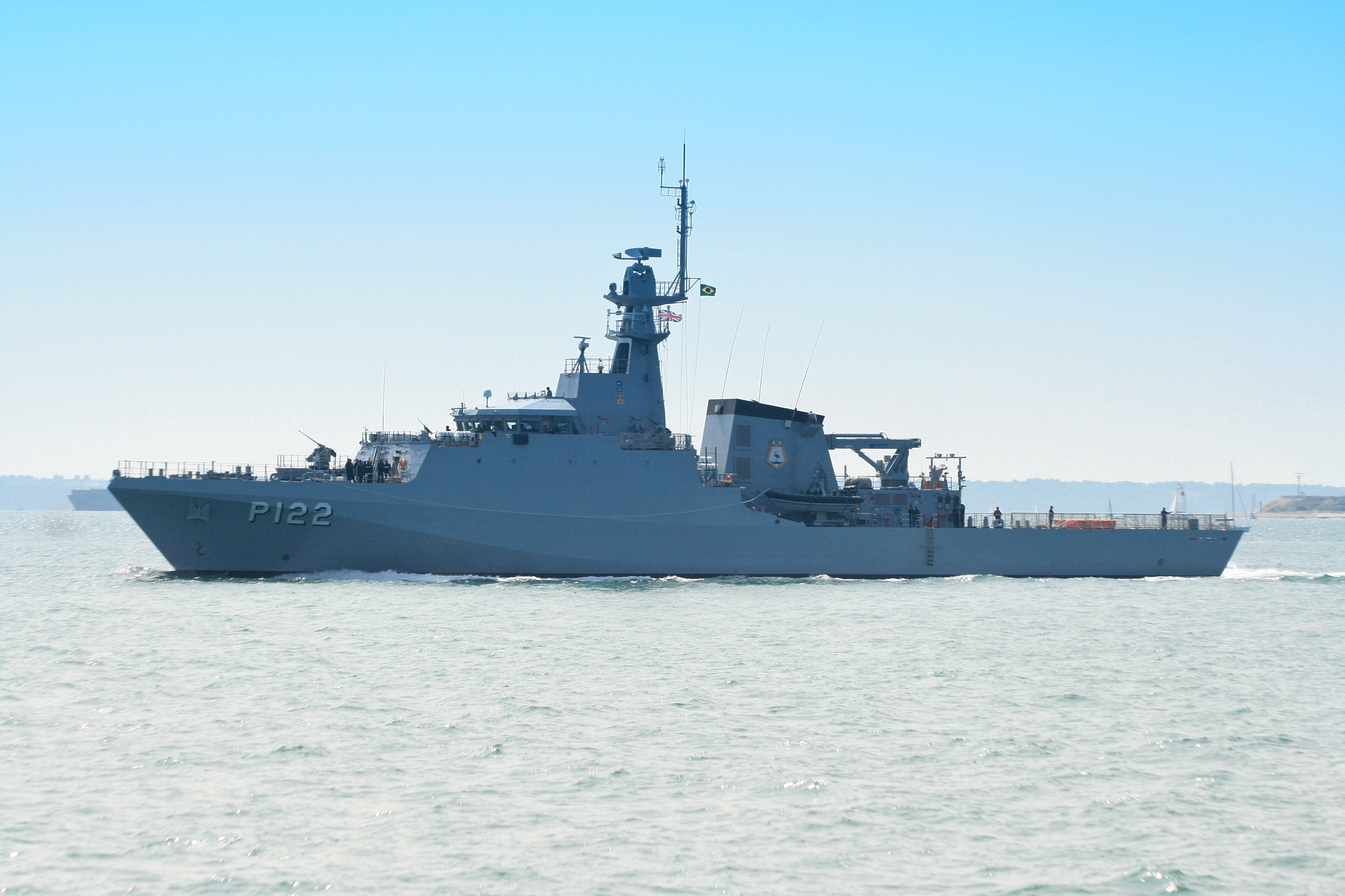 Brazilian Navy Amazonas class corvette BNS Araguari outward bound from Portsmouth Naval Base, UK, on 12 July 2013 bound for Brazil. Wikipedia editors are reminded that the copyright remains with the photographer, and that the terms of the Creative Commons (CC), Attribution (BY), Share Alike (SA) CC-BY-SA-3.0 that allow editors to reuse this image apply to Wikipedia editors also, as they do to other re-users of this image. Breaches of the licence terms are not only unlawful, but are also antisocial, in that breaches discourage photographers from making their images freely available to everyone without payment. Wikipedia re-users are also reminded of the license terms that derivatives of this image should not imply that the adaptation is endorsed or approved by the author or copyright holder. Neither should derivatives be presented as the creation of the author or copyright holder, while clearly stating that the adaptation is a derivative of the original. Attribution online should be in this format Brian Burnell. On the printed page, a simpler form is acceptable - example: "Image: Brian Burnell".